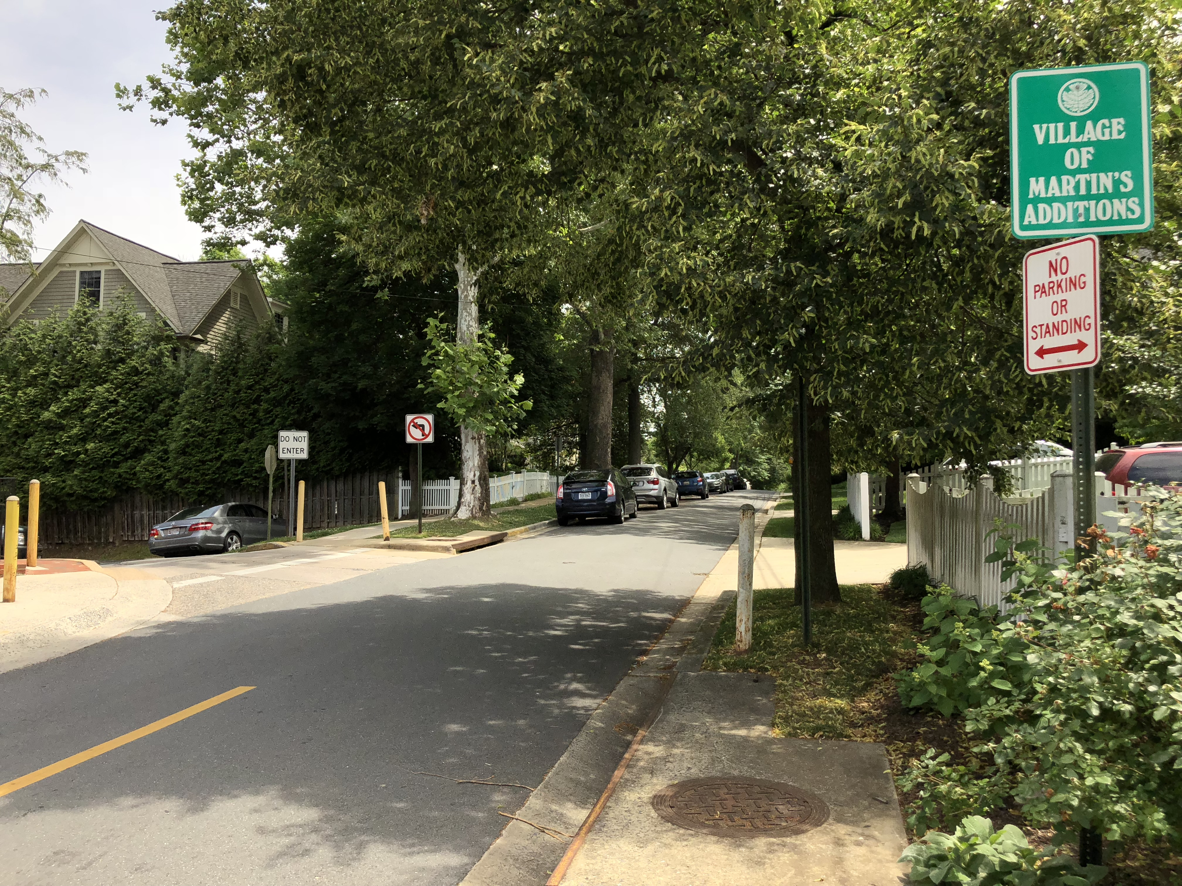 View east along Turner Lane entering Martin's Additions, Montgomery County, Maryland